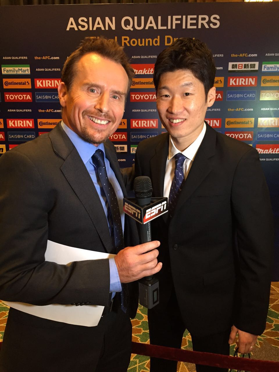 Jason Dasey and Park Ji-sung at 2018 World Cup draw in Kuala Lumpur